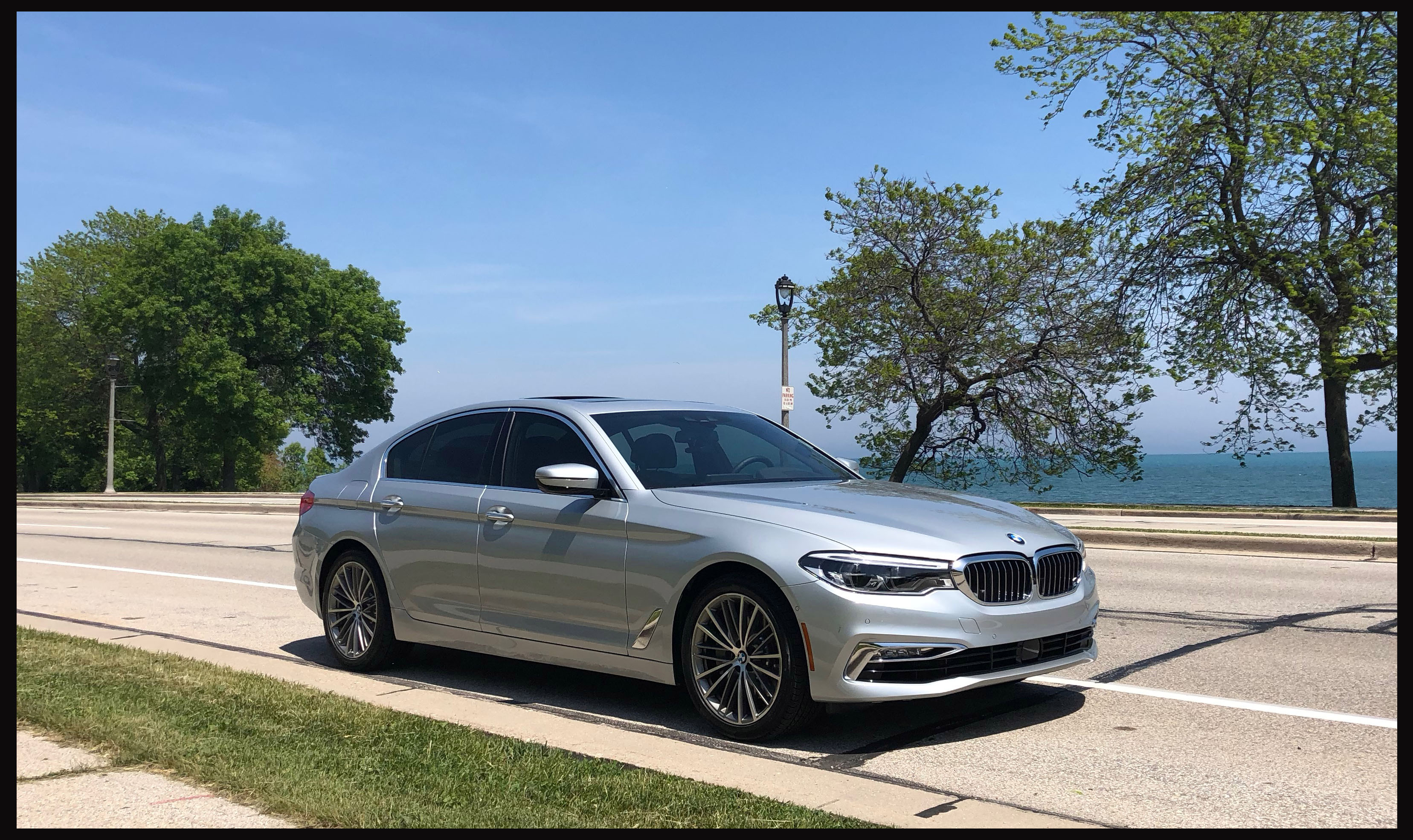 2018 BMW 540I Xdrive